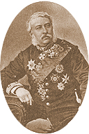 Portrait of Baron Bernhard Karl Von Koehne